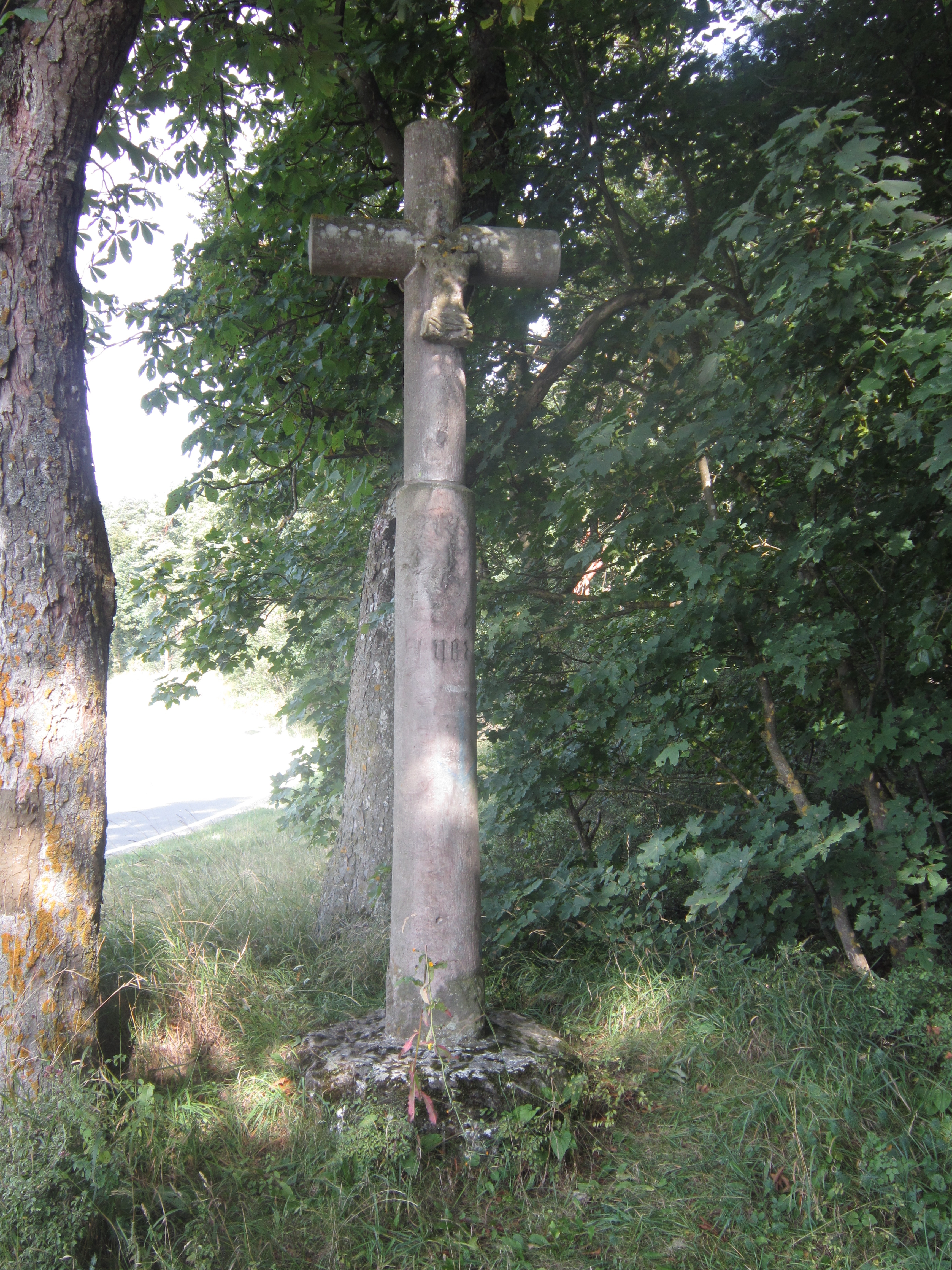 The "Spinnjungfernkreuz" at the Sodenberg, a mountain at the German town of Hammelburg in Lower Franconia (Bavaria).